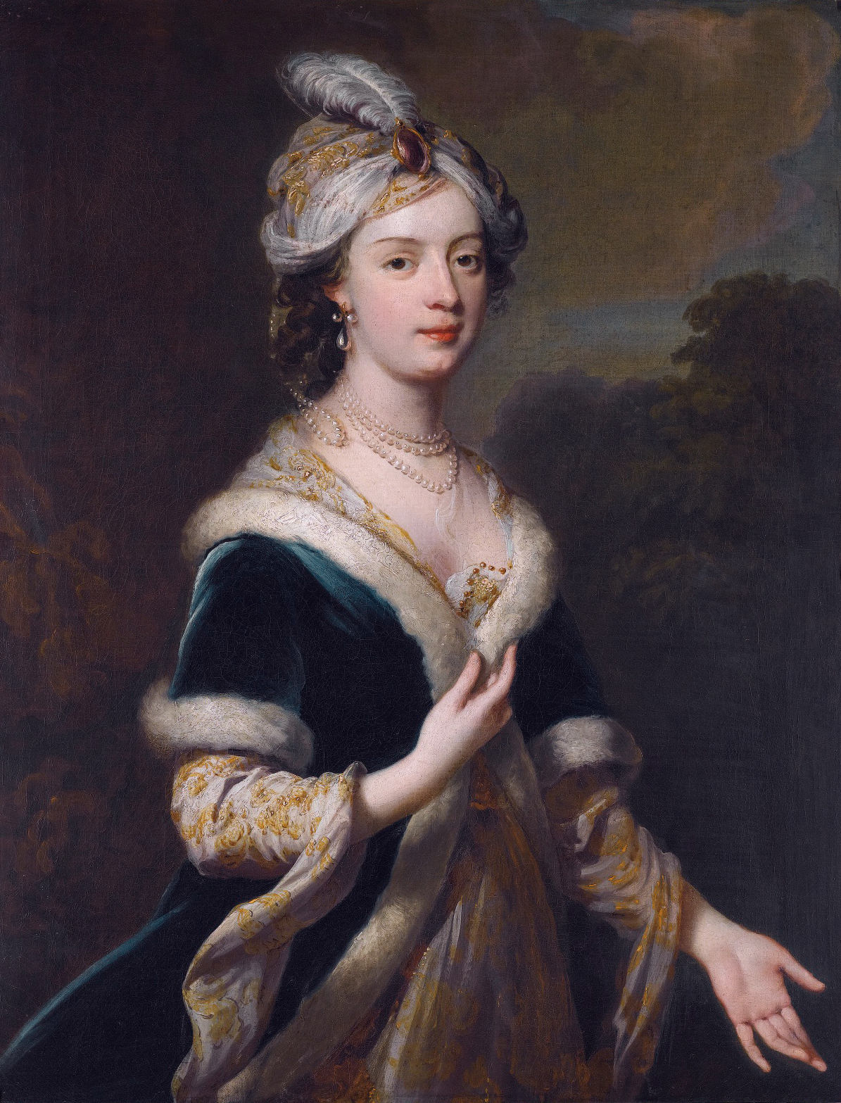 Elizabeth Howard (1701-1739), eldest daughter of Charles Howard, 3rd Earl of Carlisle, in turkish costume